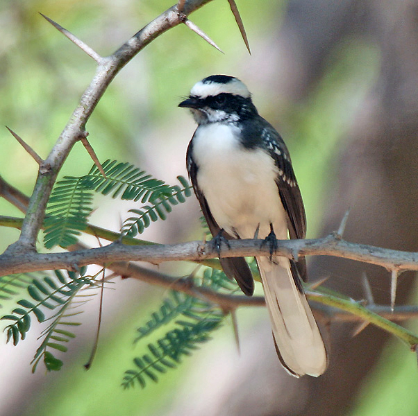 White-browed Fantail Rhipidura aureola at Sindhrot in Vadodara District of Gujarat, India.